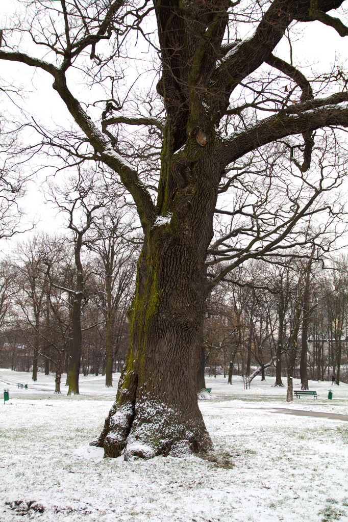 There is more moss on the northern side of this oak